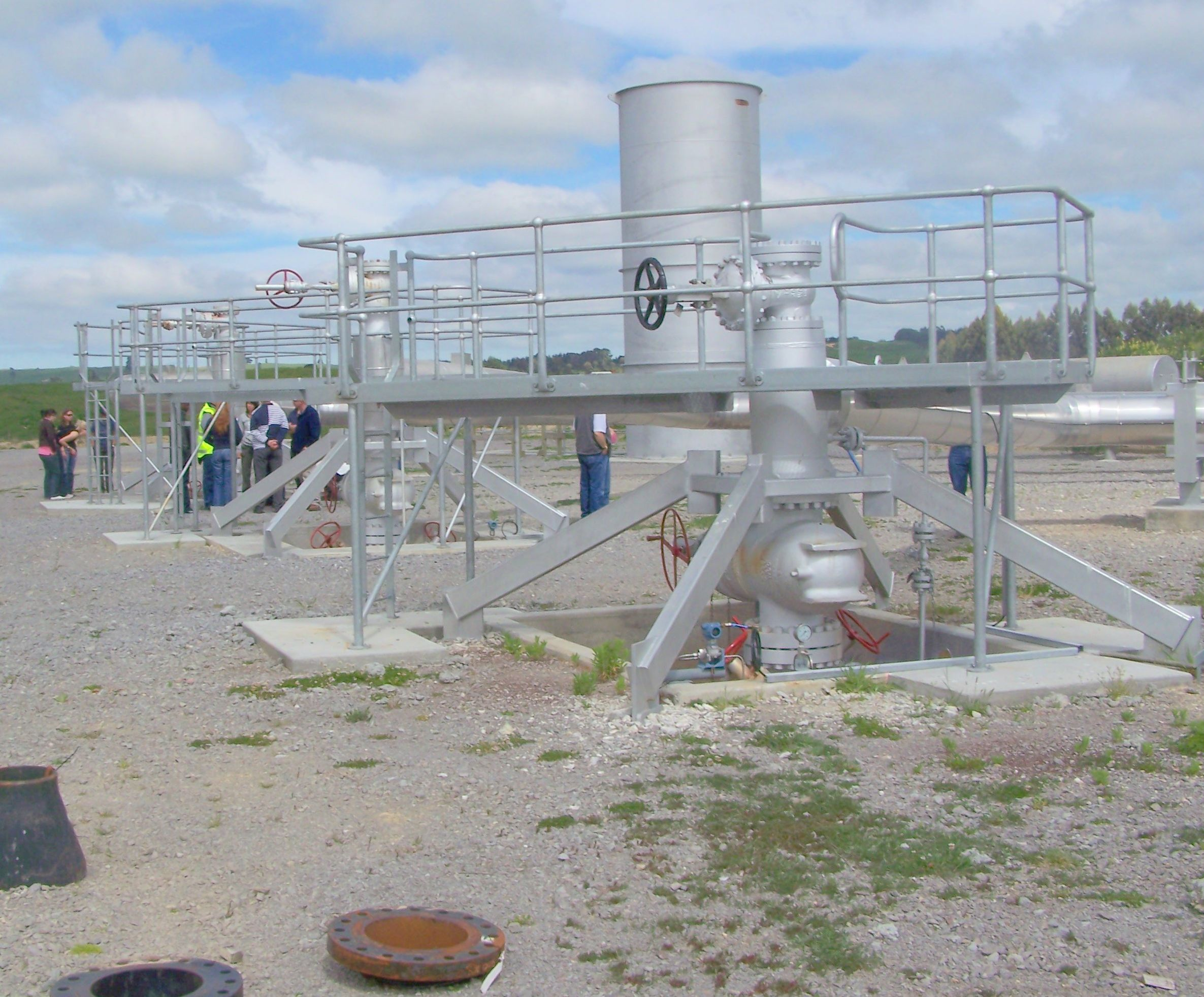 Geothermal wells for the Te Mihi redevelopment of the Wairakei field, New Zealand.